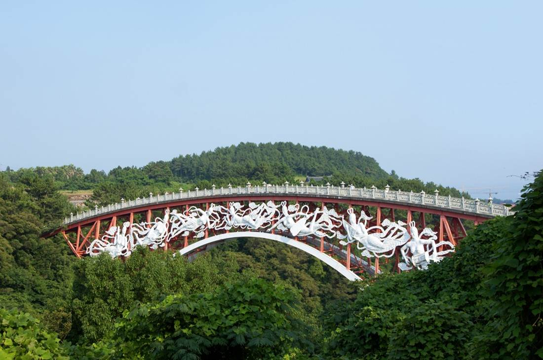 The Sunim bridge - Jeju Island in Korea/UNESCO World Natural Heritage